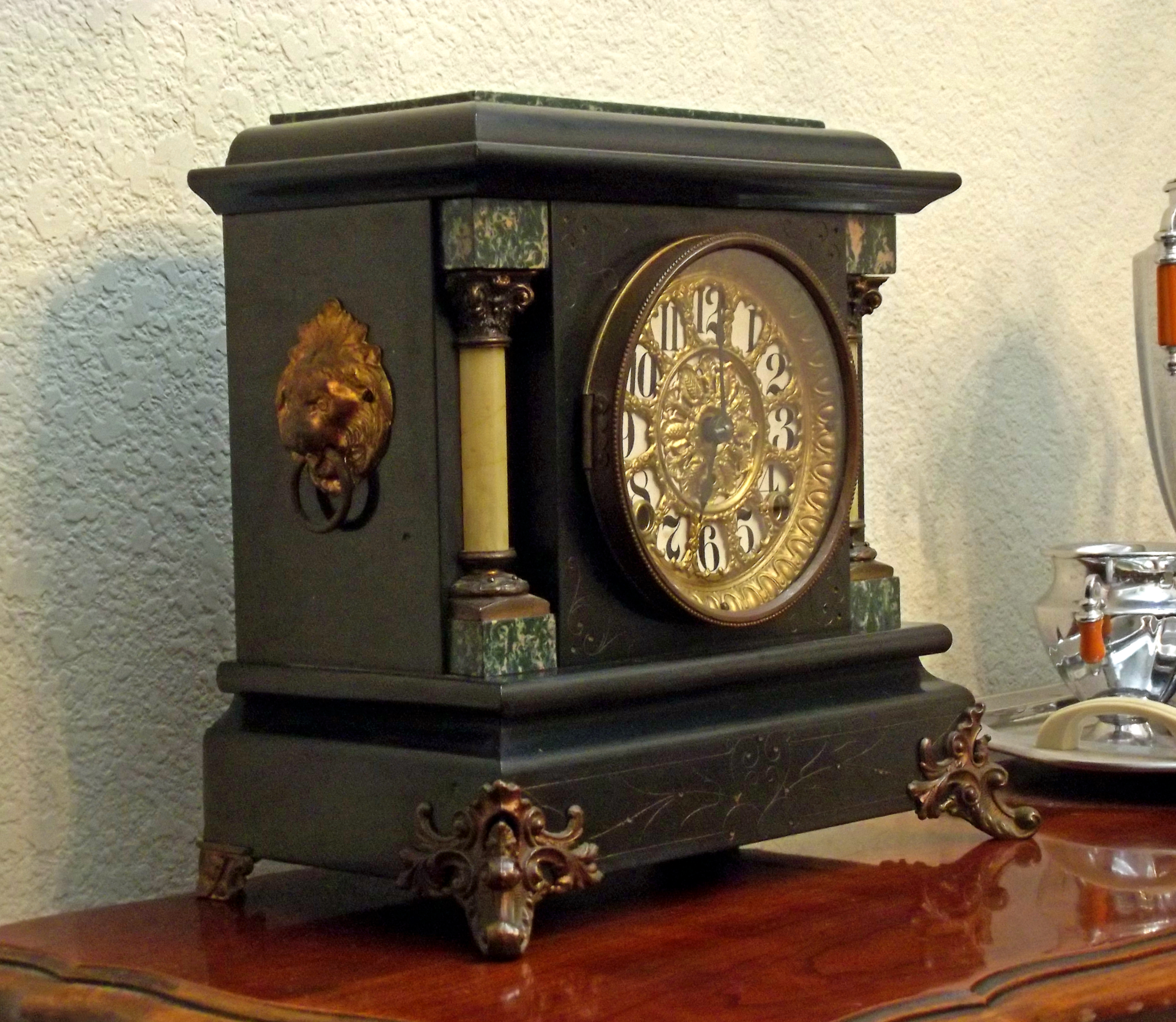 Mantle clock manufactured by the Seth Thomas Clock Company in 1880. Model 295.